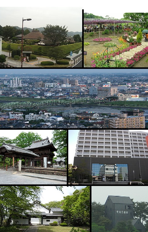 Ashikaga montage